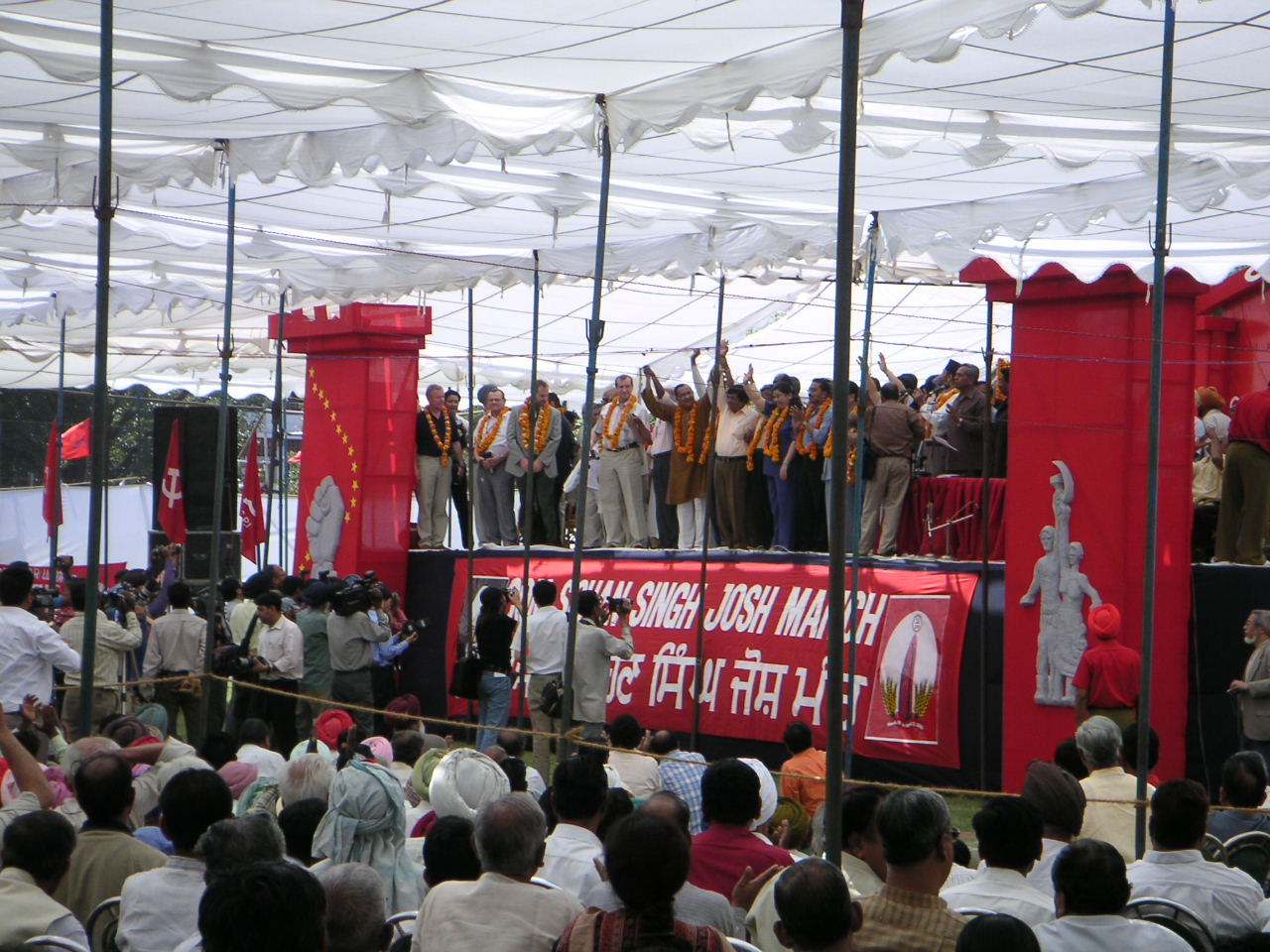 Open session of the 19th congress of the Communist Party of India, in Chandigarh, 2005. International delegations presented on the dais. Photo: Soman